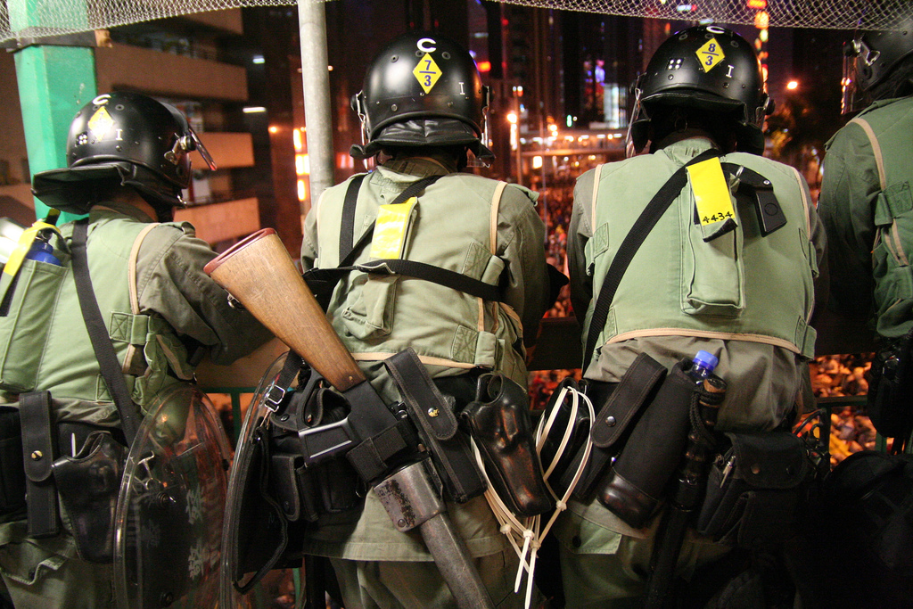 PTU on guard